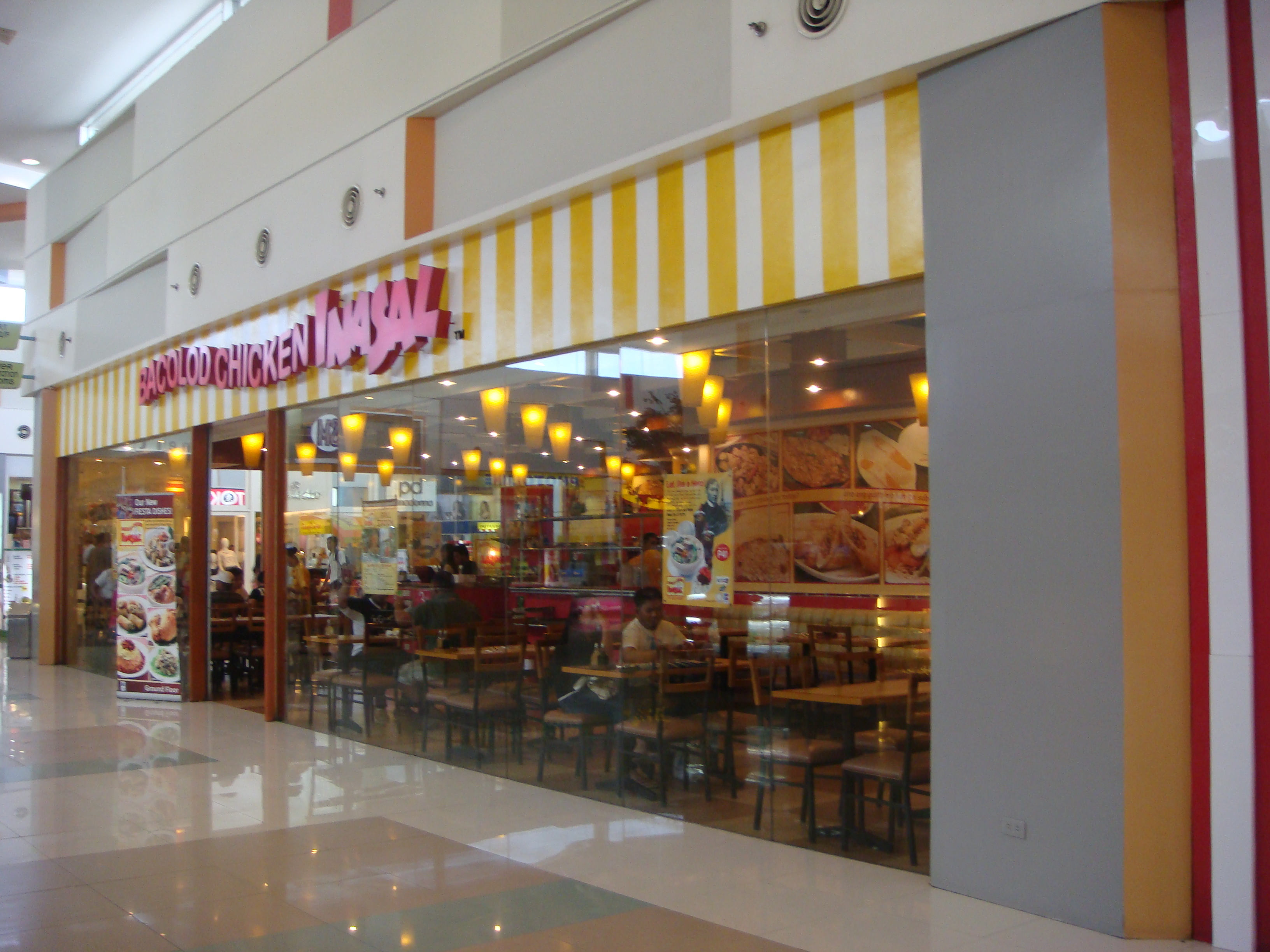 Bacolod Chicken Inasal[1]